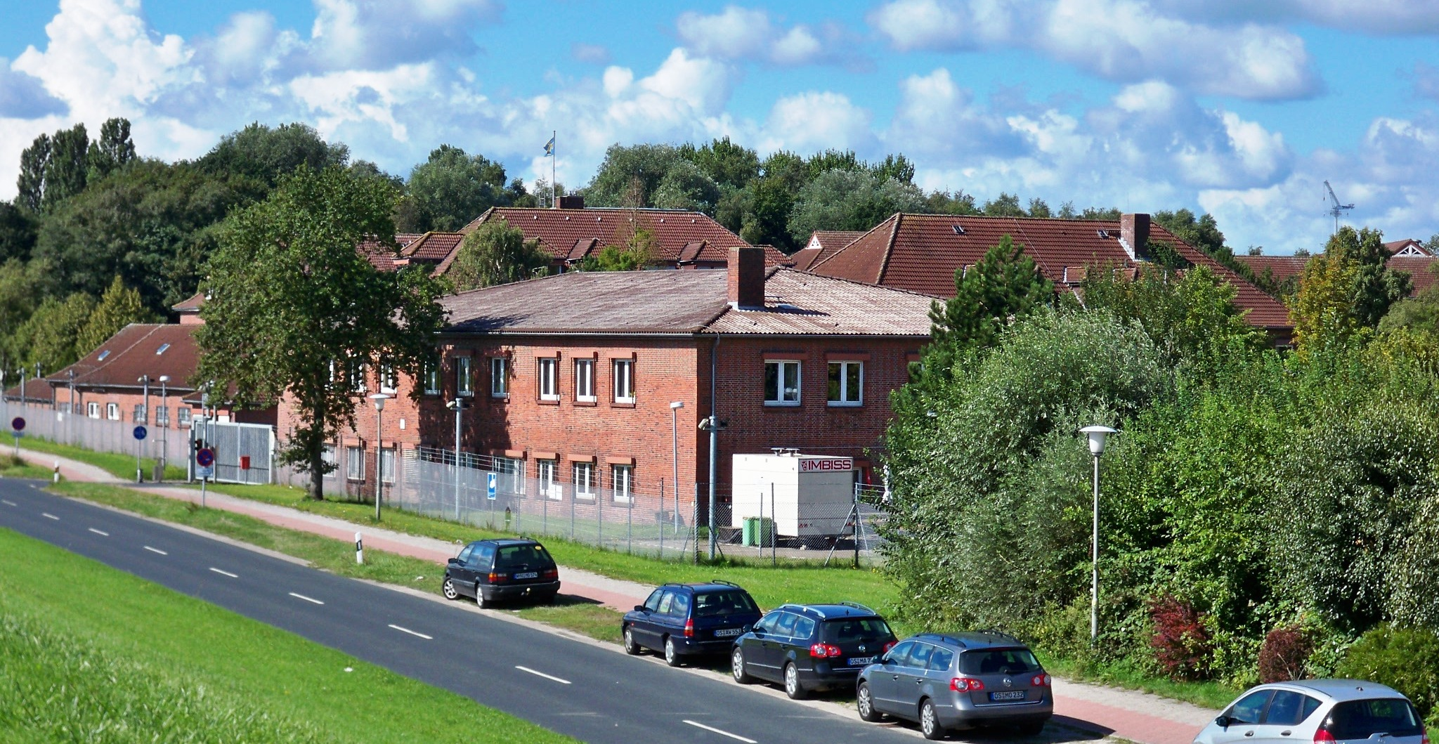 Military area Marineanlage Bordum with main gate